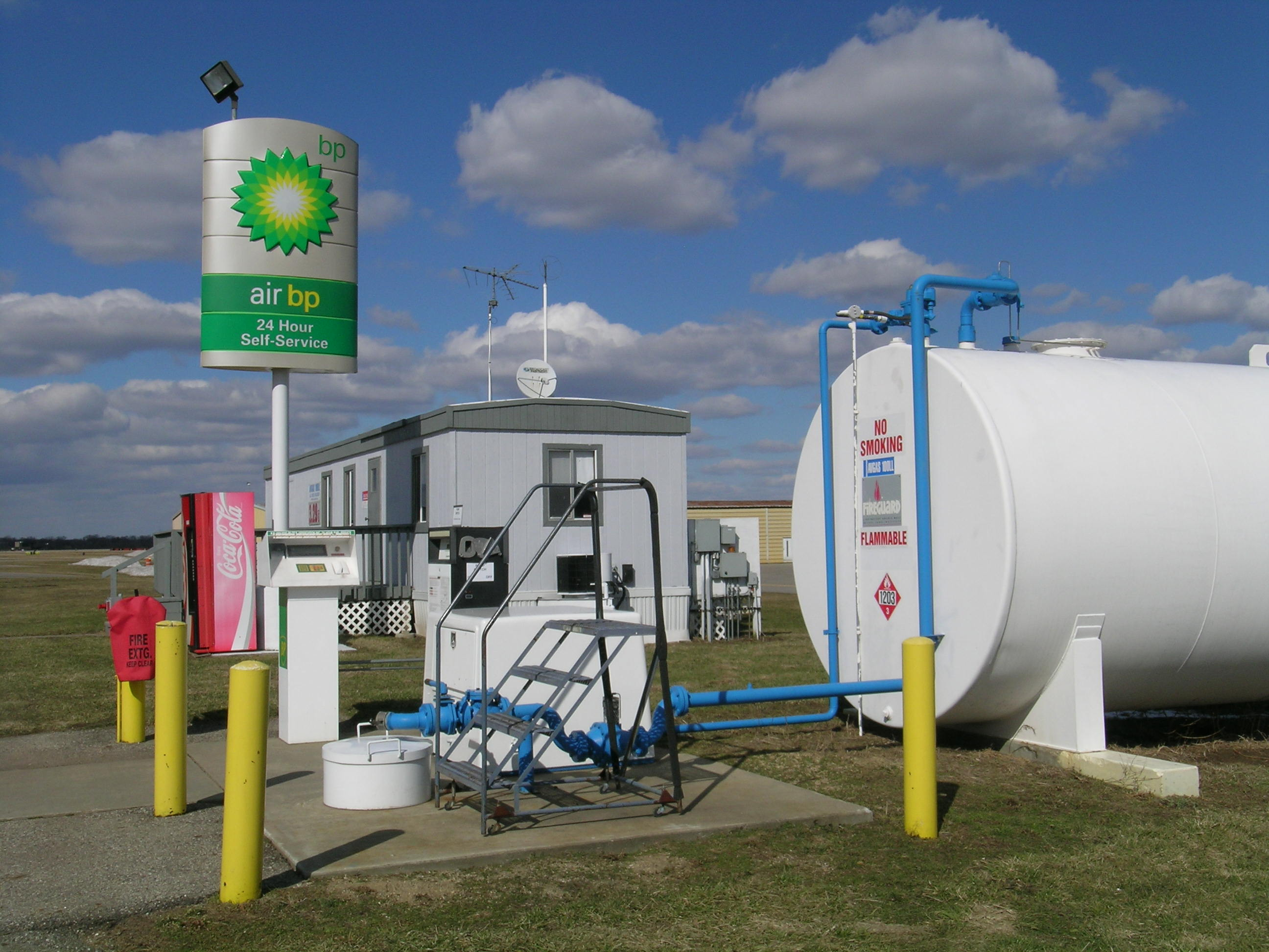 Kalamazoo Pilots Association AirBP